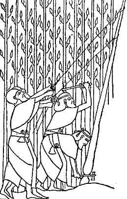 An illustration from the Encyclopaedia Biblica, a 1903 publication which is now in the public domain. Fig. 5 for article "Egypt". Image of Canaanite princes in the Lebanon, felling trees for Sethos I